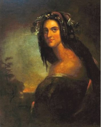 Pocahontas